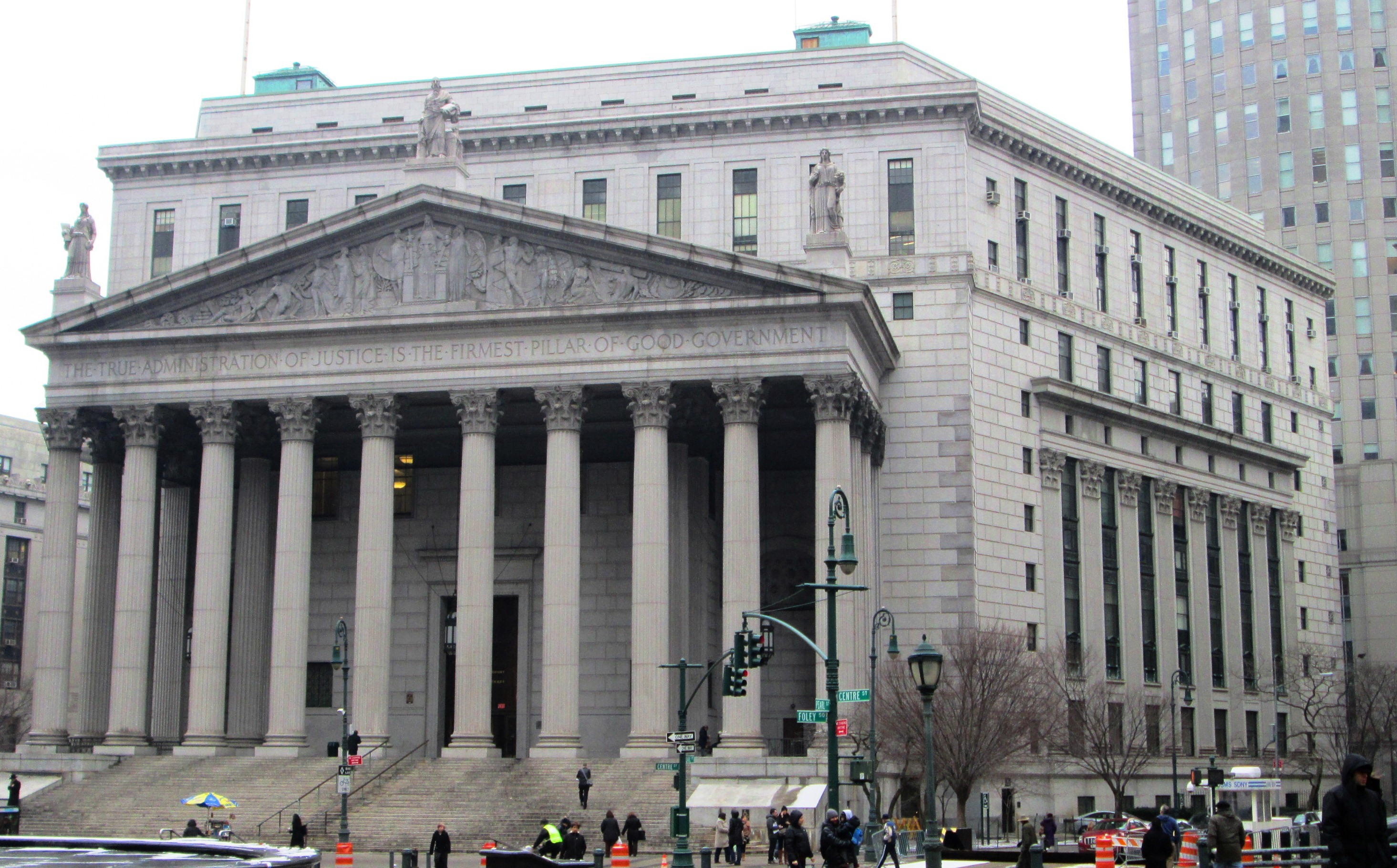 The New York State Supreme Court courthouse at 60 Centre Street on Foley Square in the Civic Center district of Manhattan, New York City was built 1913-27 as the New York County Courthouse, completion having been delayed by World War I, and was designed by Guy Lowell in the Classical Revival style. It features a Corinthian portico and WPA-sponsored paintings by Attilio Pusterla inside from the 1930s. Not obvioous from the outside, a plan viewe of the building shows that it is laid out in a hexagon with an interior courtyard. Both the interior and exterior are NYC landmarks. (Sources: AIA Guide to NYC (5th ed.) and Guide to NYC Landmarks (4th ed.))